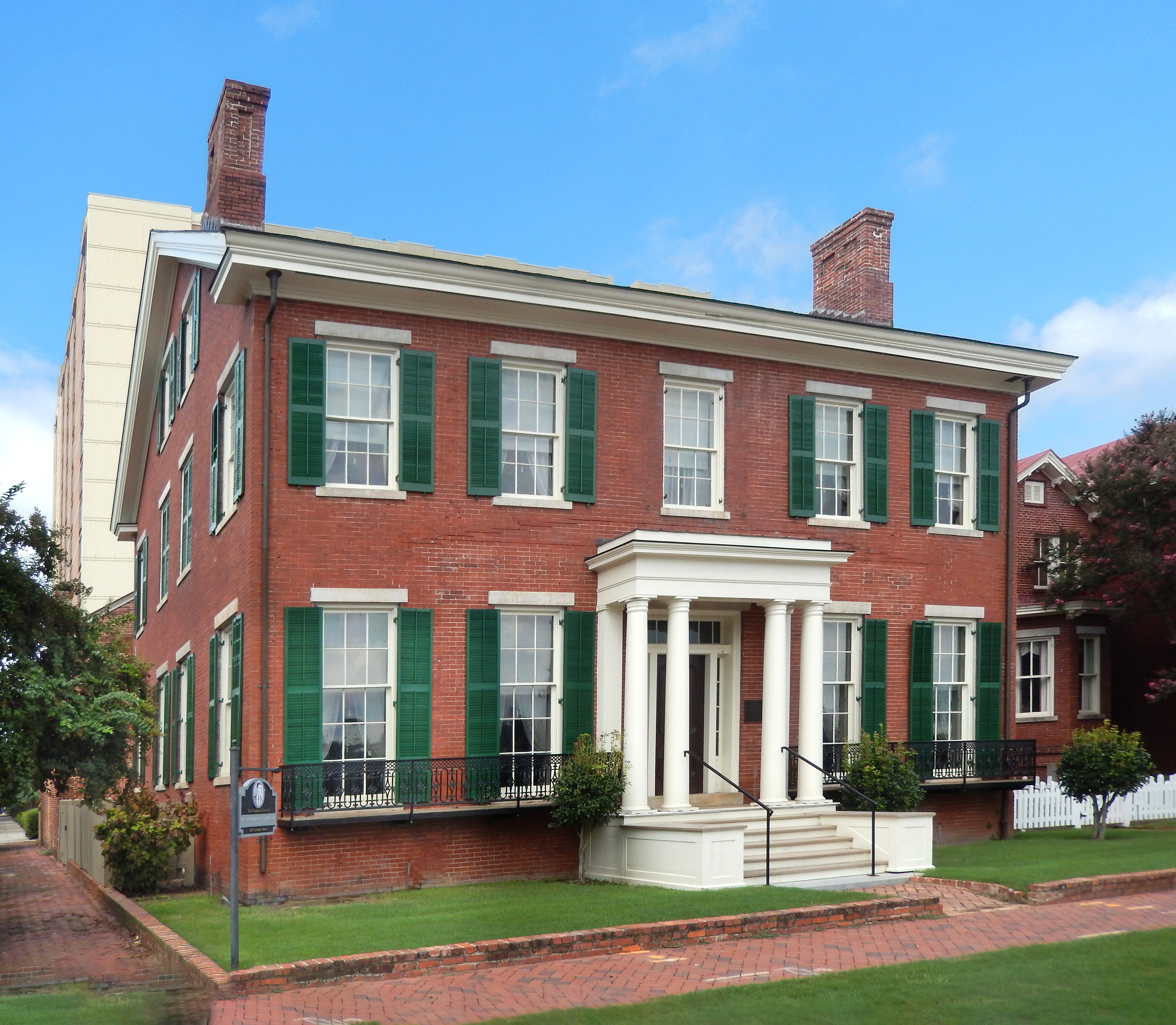 Woodrow Wilson Boyhood Home, 419 7th St. Augusta